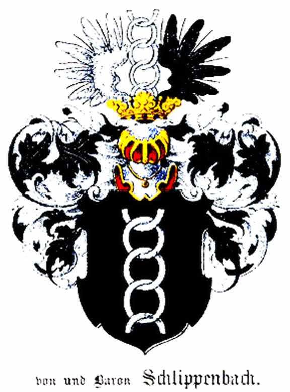 Coat of Arms of von und Baron Schlippenbach family